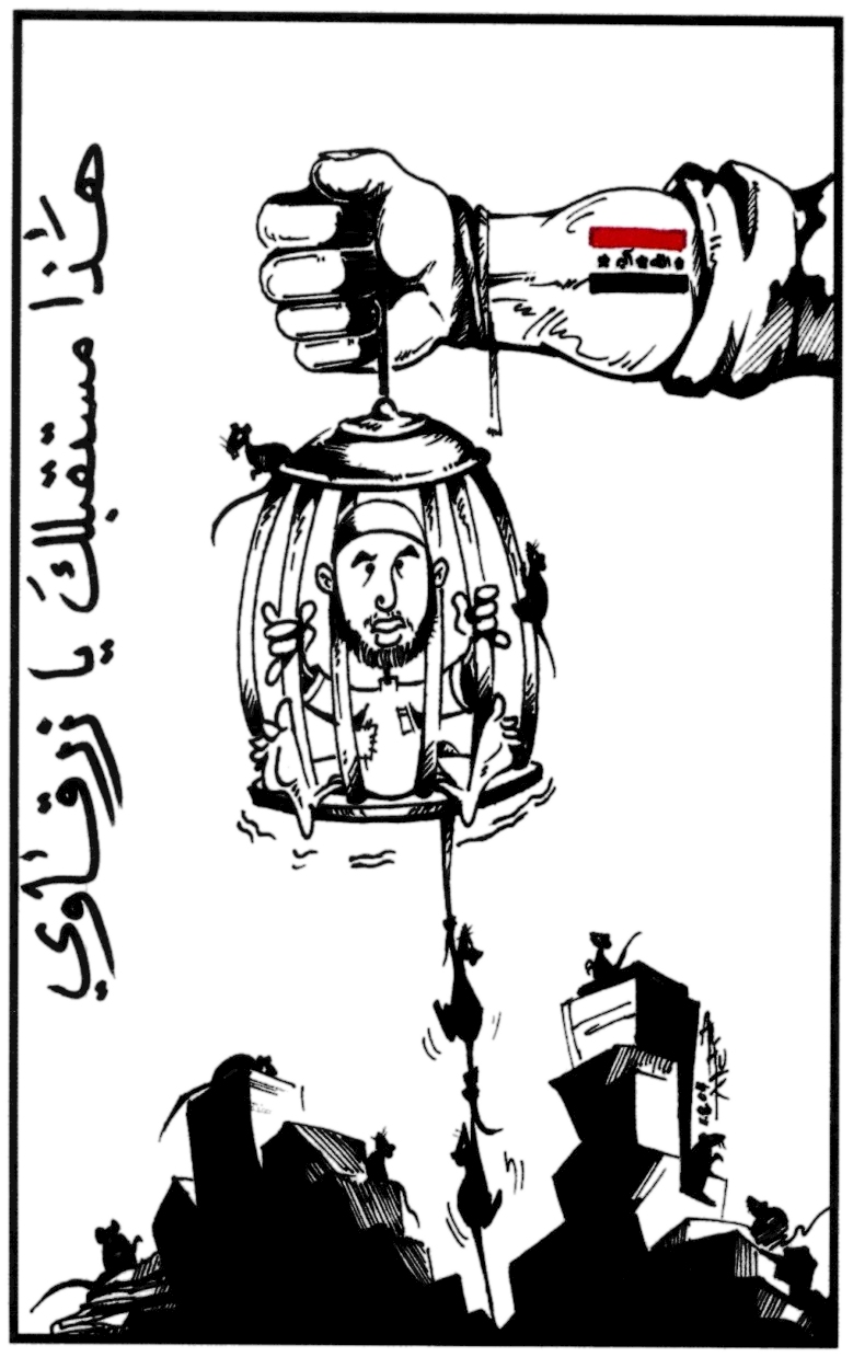 U.S. PSYOP leaflet disseminated in Iraq. It shows a caricature of Al-Qa`eda terrorist al-Zarqawi caught in a rat trap. The caption reads "This is your future, Zarqawi" (هذا مستقبلك يا زرقاوي). Taken from with permission.